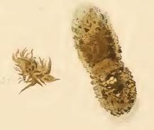 Stainton’s Natural History of the Tineina (1855–1873): Nemophora minimella